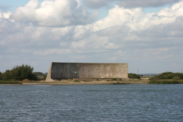 The largest of three concrete "sound mirrors" on the coast in Denge, Kent, England, built in the 1930s for air defence. Before radar was developed in World War 2 these were used to detect incoming enemy aircraft by listening for the sound of their engines. This "sound wall" was the largest, a curved wall about 5 m high by 70 m long. The wall focused all the sound coming from a particular direction to a point in front of the wall, the focus; an observer or microphone would be stationed there. The curve of the wall had a circular shape, rather than the parabolic shape used in many sound detectors. The circular shape allowed the sensitivity direction to be swept across the horizon by moving the microphone laterally. The structure is preserved for historical interest.